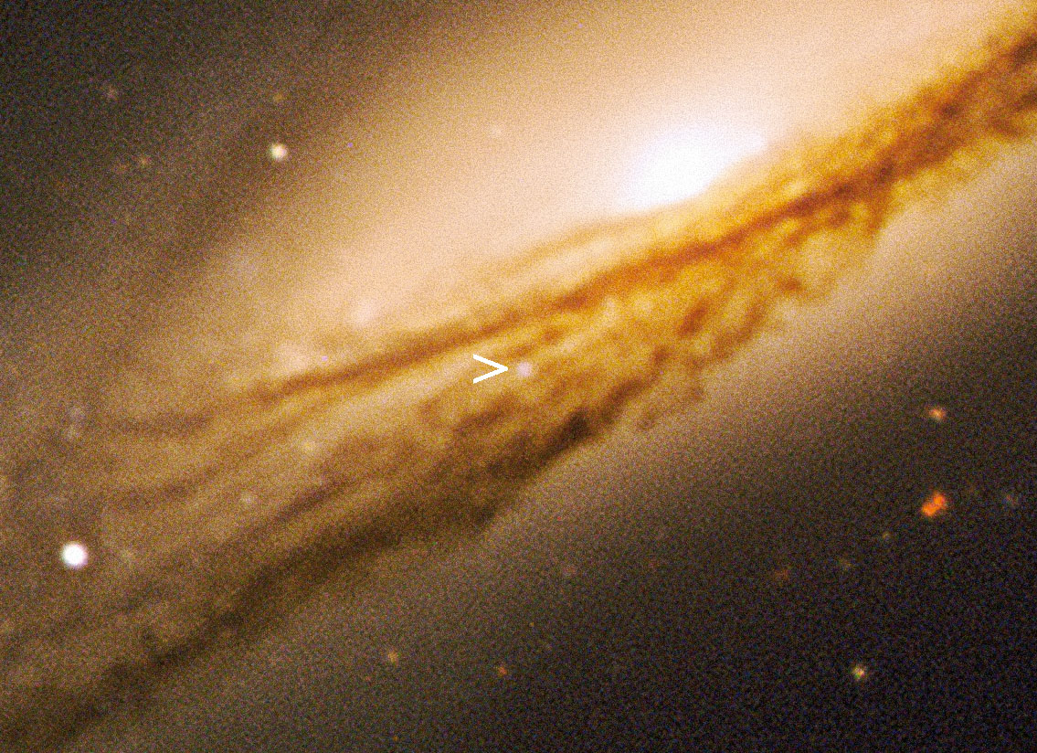 Supernova SN 2002bo in NGC 3190 was discovered in March 2002. This VLT image was taken in March 2003 when the supernova was about 50x fainter. The supernova is located at coordinates 10 18 06.5 +21 49 42